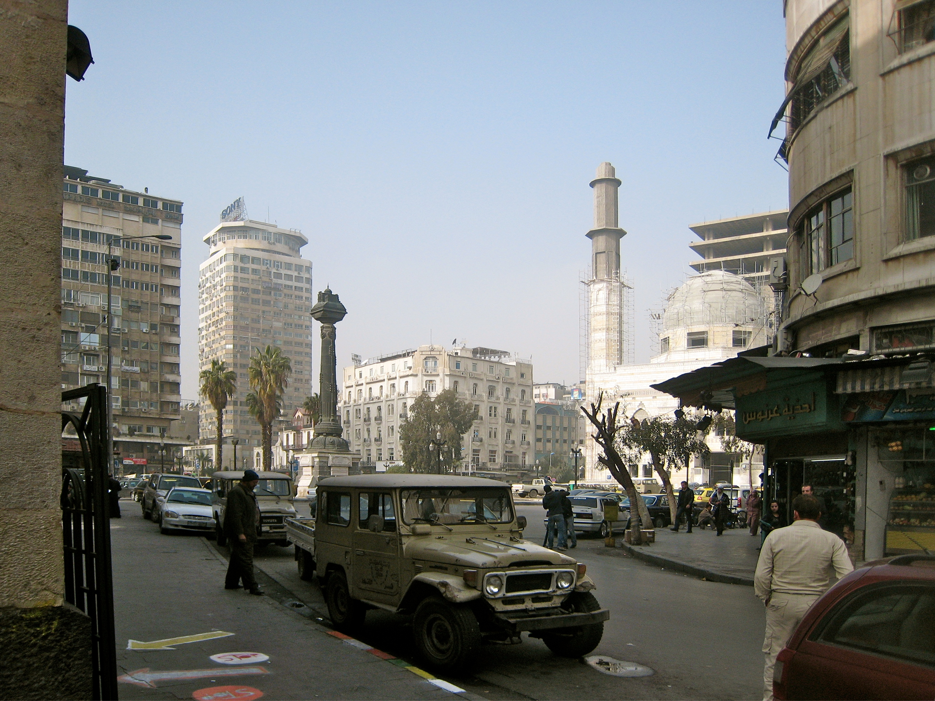 Marjeh square, Damascus.